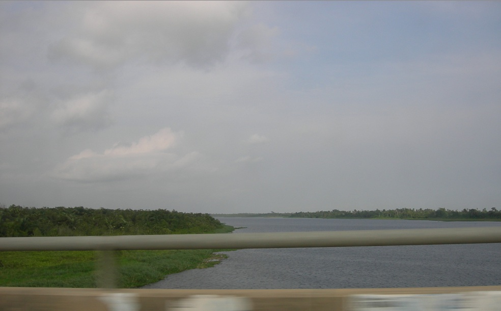 One of the Lagoons surrounding Lagos. Personal Photograph. Taken July 2007.